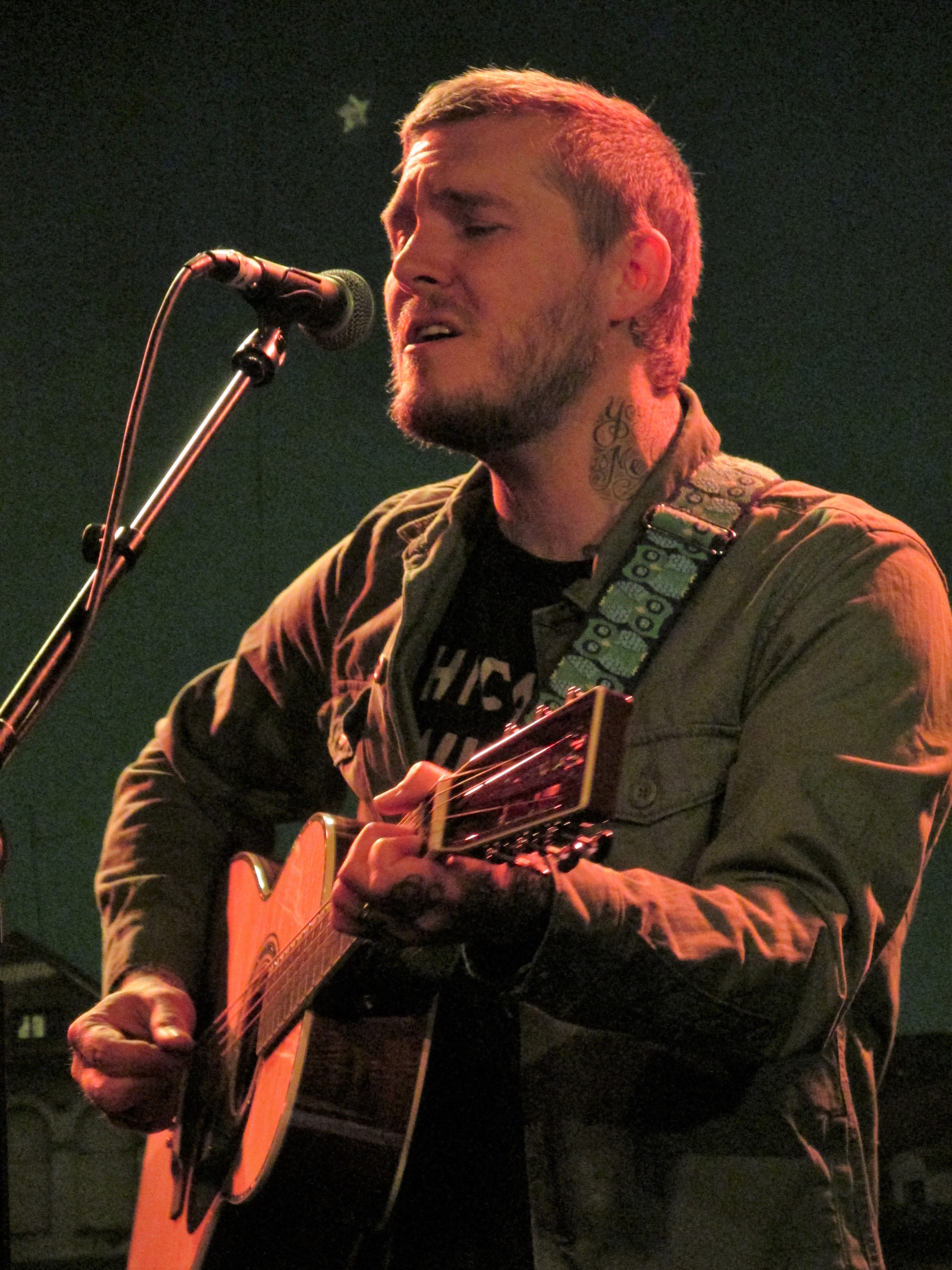 Brian Fallon performs on his 'Songs from the Hymnal' tour at The Junction, Cambridge, UK, on 22 February 2019.